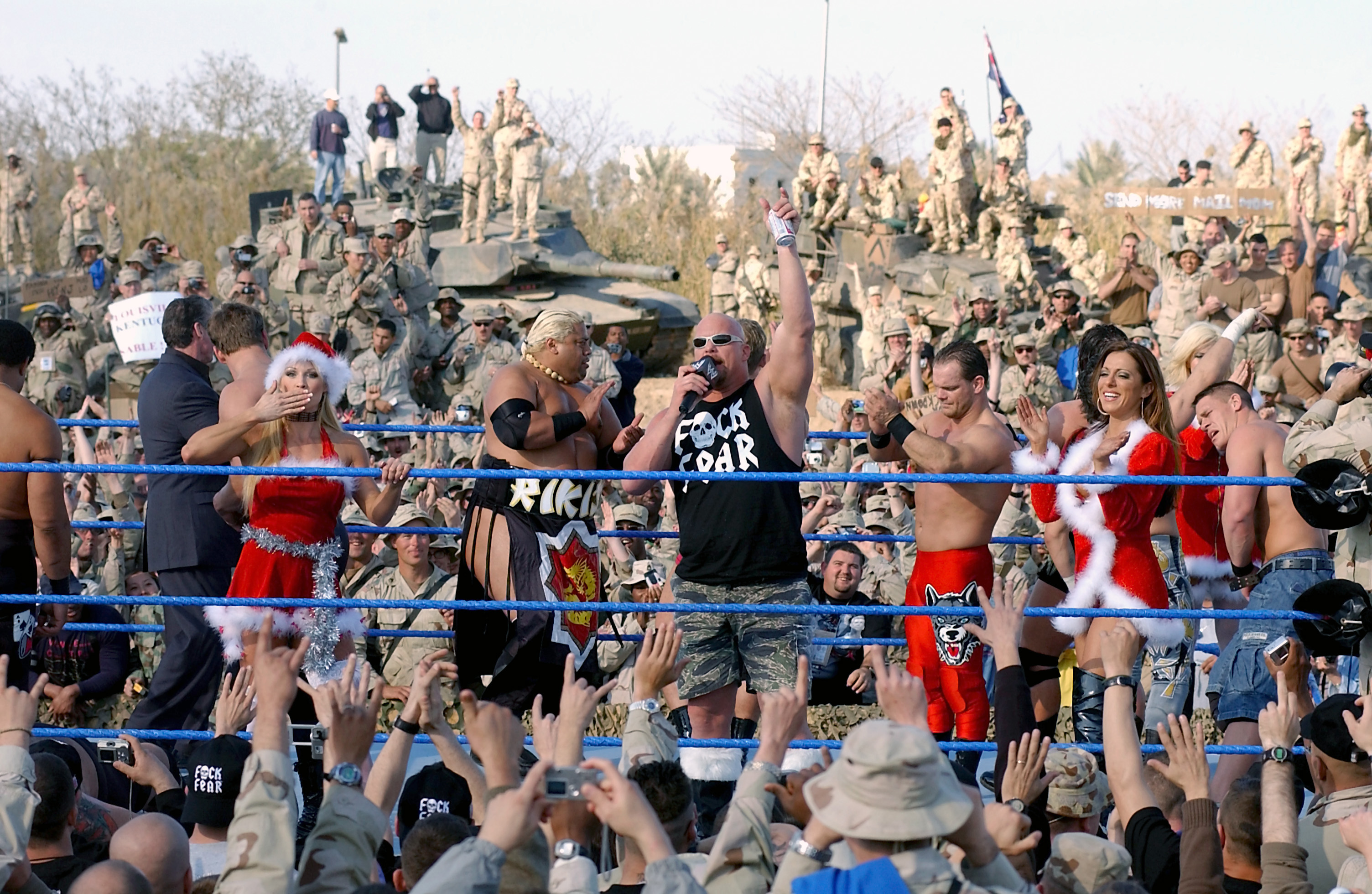 World Wrestling Entertainment (WWE) superstars perform for the Coalition troops at Camp Victory, Baghdad International Airport (BIAP), Iraq (IRQ) during Operation IRAQI FREEDOM.